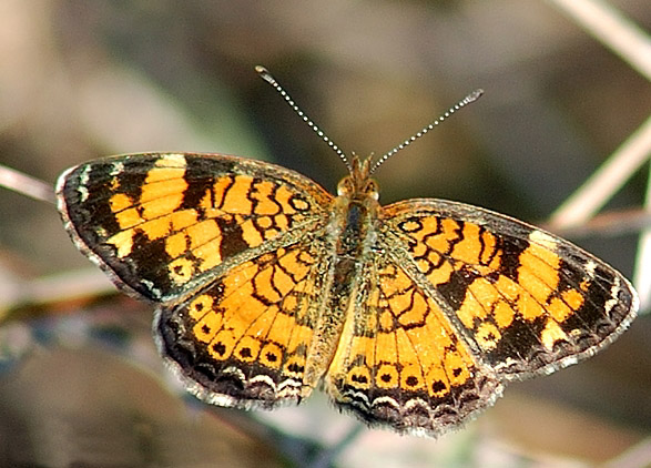 Pearl Crescent (Phyciodes tharos -- Family: Nymphalidae). Along Turner River Rd. in the Big Cypress National Preserve, Collier Co., Florida 01/31/2007